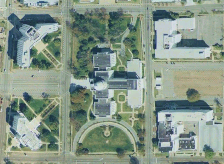 Alabama state capitol building in Montgomery. USGS data via NASA World Wind.